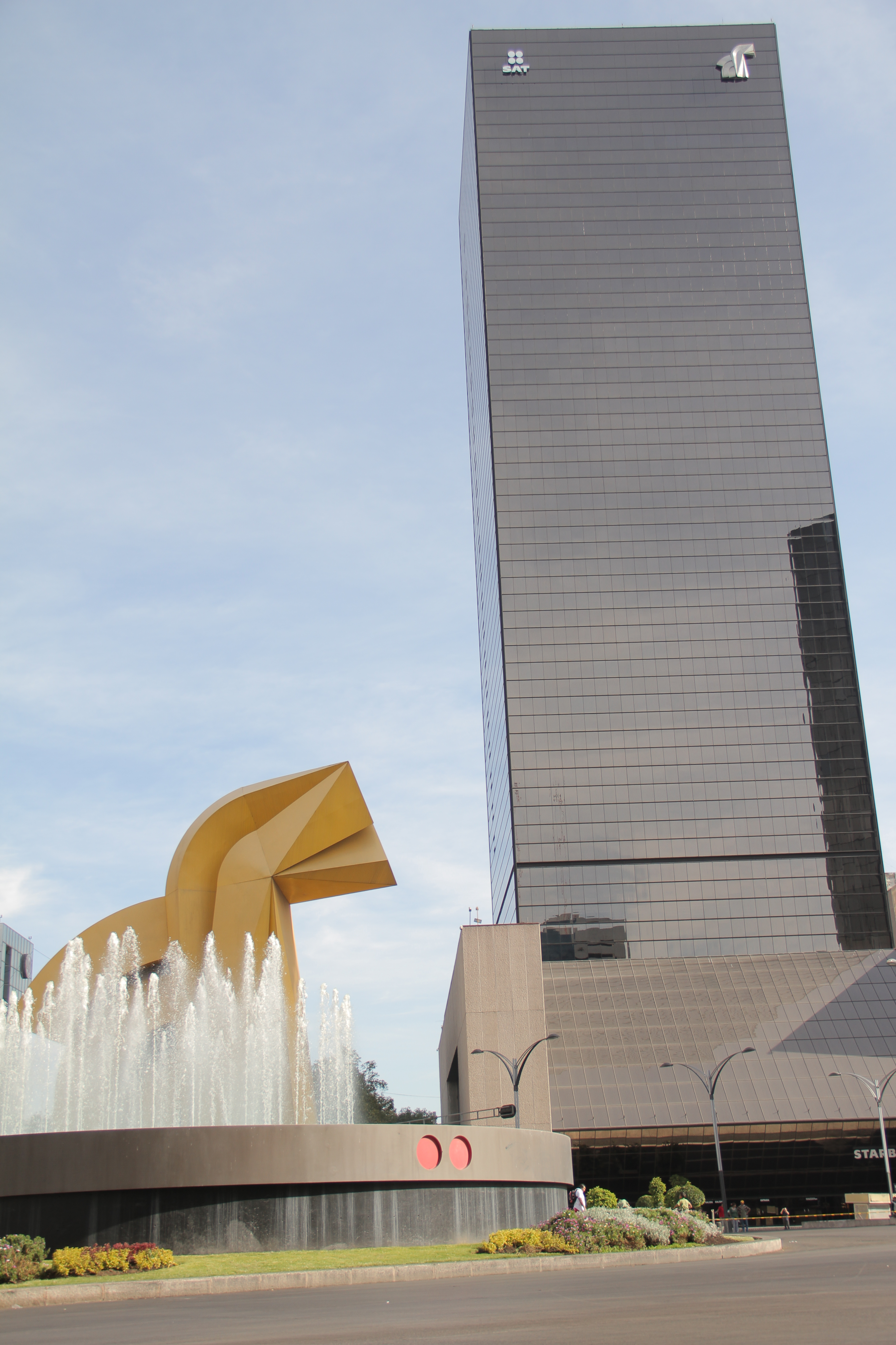 TORRE CABALLITO